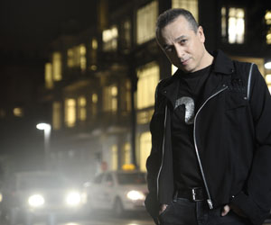 Uri Fineman